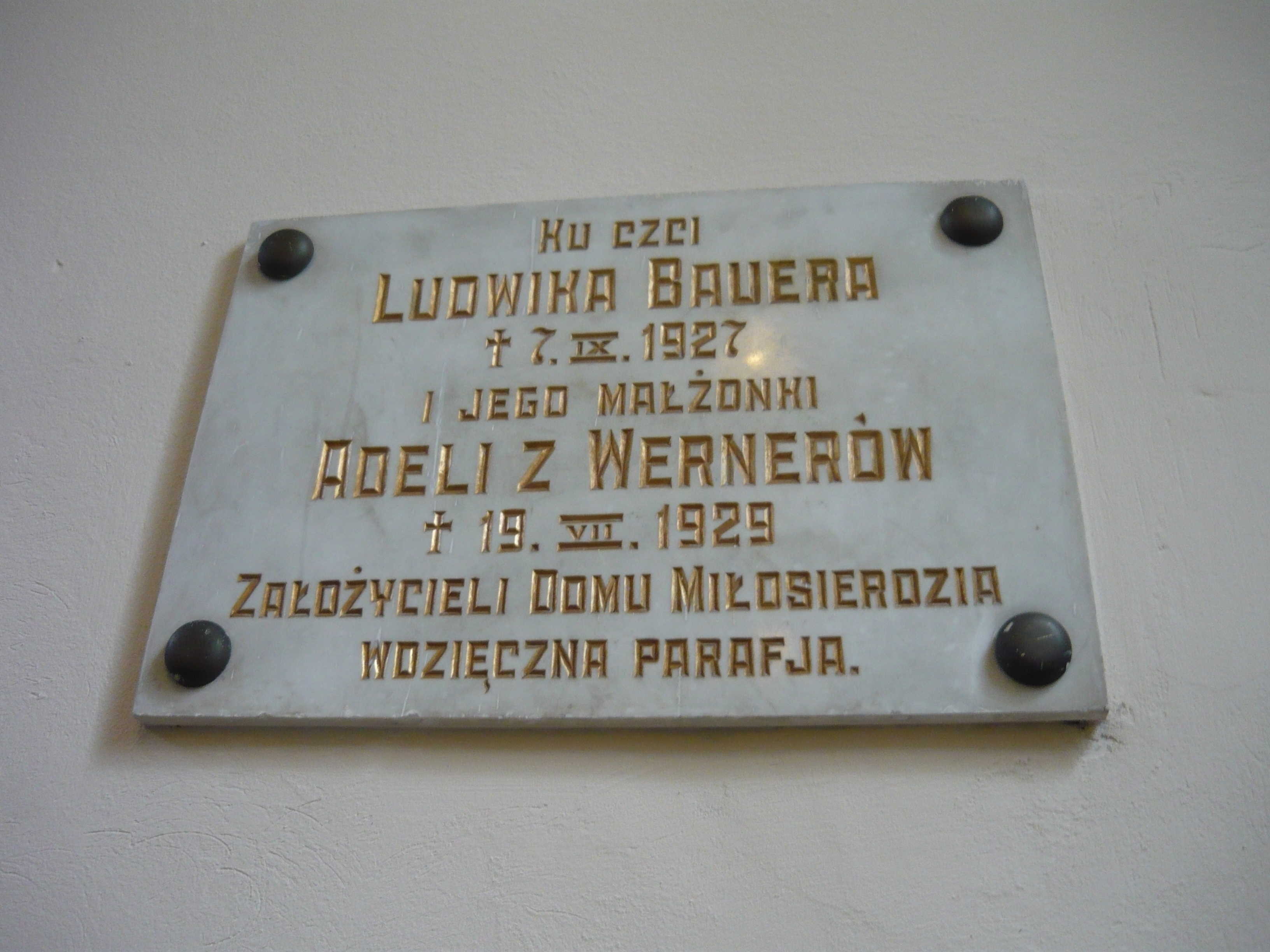 The plaque of Ludwik Bauer and his wife as the inventors of House of the Mercy, Włocławek's Luterian Church.